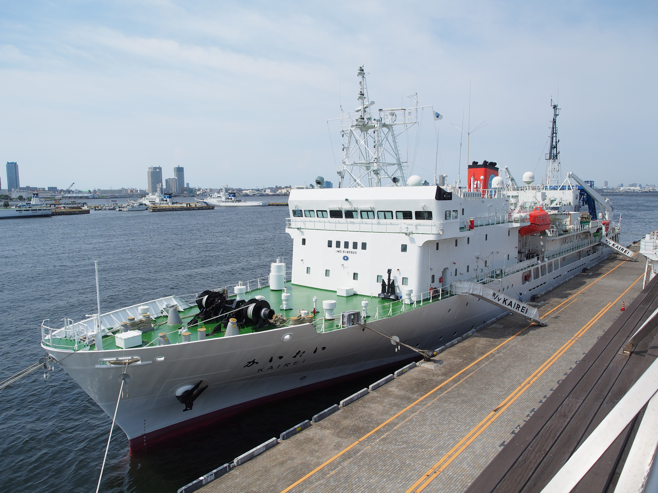 JAMSTEC Deep Sea Research Ship Kairei, berthed at Osanbashi Pier in the Port of Yokohama for the open house for Umihaku 2018.